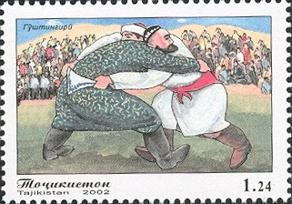 Stamps of Tajikistan